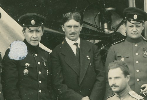 Aviateur Henri Pequet et ses Eleves Russes Moscou Juni 1914